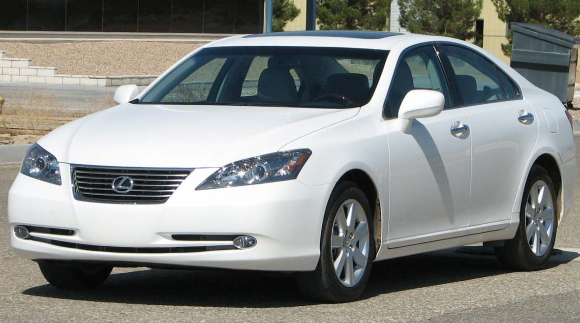 2007 Lexus ES350 photographed in USA.